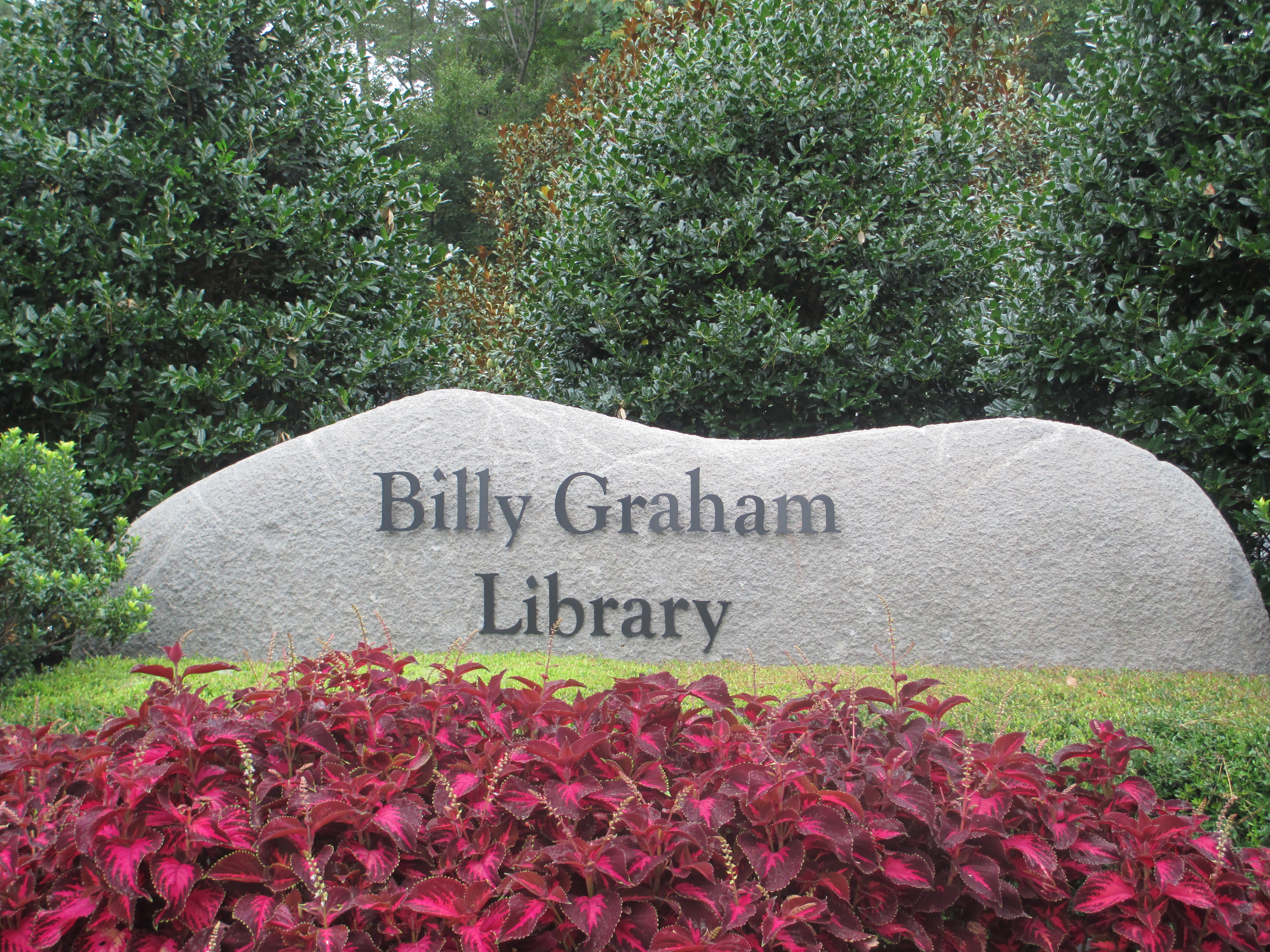 I took photo at Graham Library in Charlotte, NC, with Canon camera.